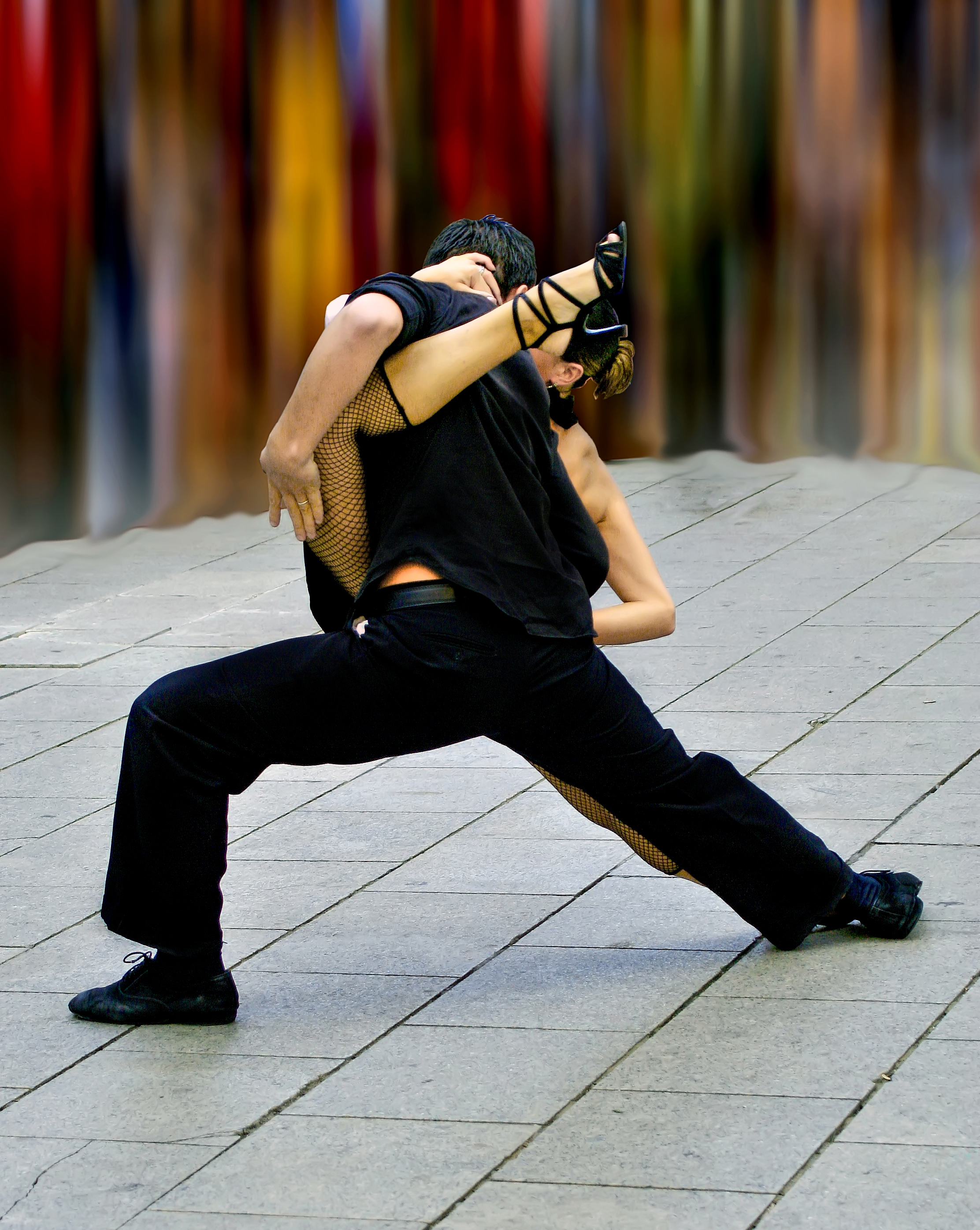 A tango couple, the woman performing a hooking action over the man's waist (a Piernazo.